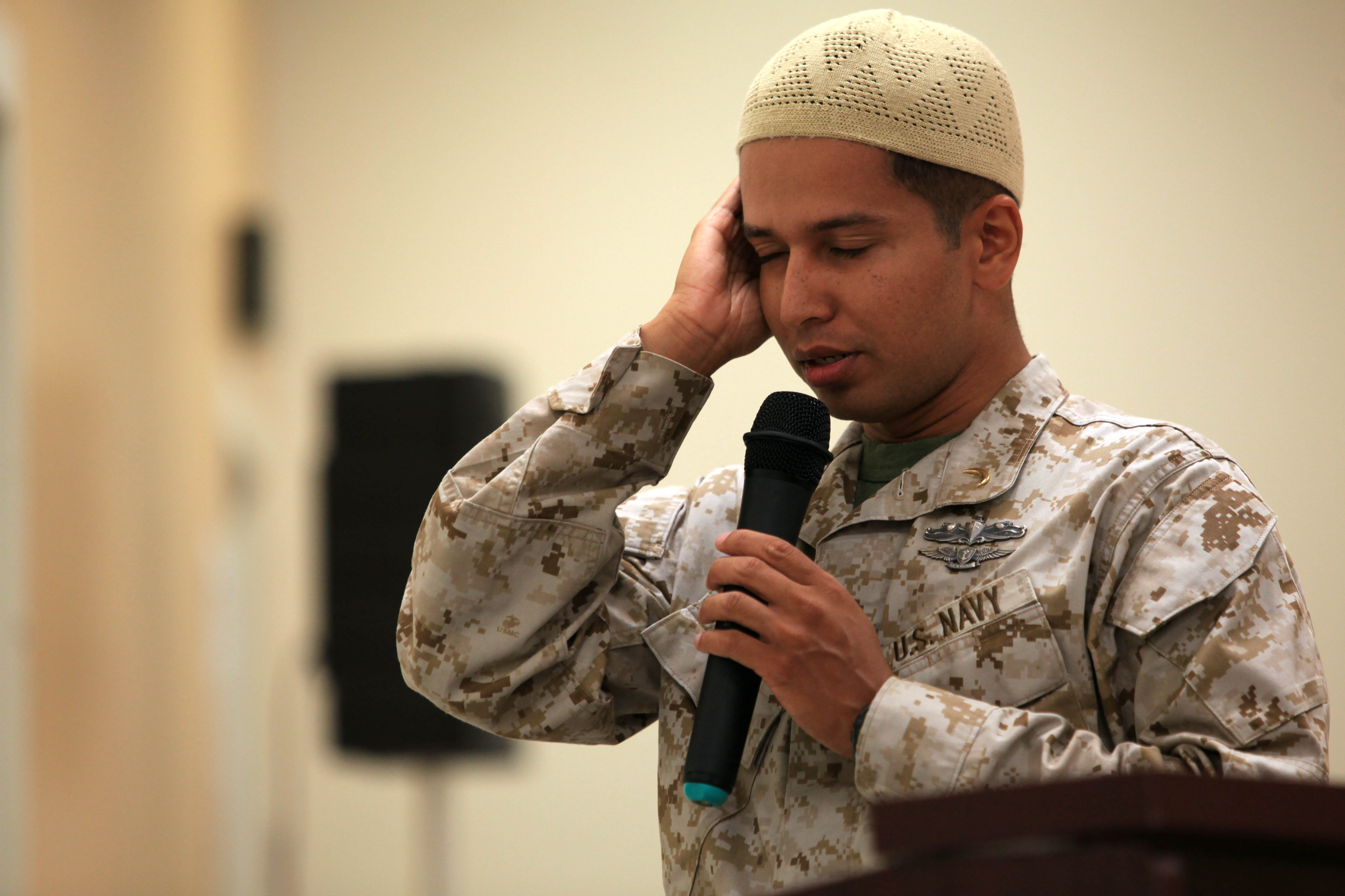 U.S. Navy Lt. Asif I. Balbale, chaplain for the Assault Amphibian School Battalion, Marine Corps Base Camp Pendleton, recites the Adhan, or call to prayer, during Iftar at the Blinder Memorial Chapel, Aug. 2. Iftar allows fasting Muslims to break fast with an evening meal that takes place at sunset each night during the Islamic holy month of Ramadan